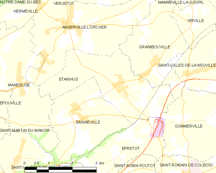 Map of French municipality Étainhus